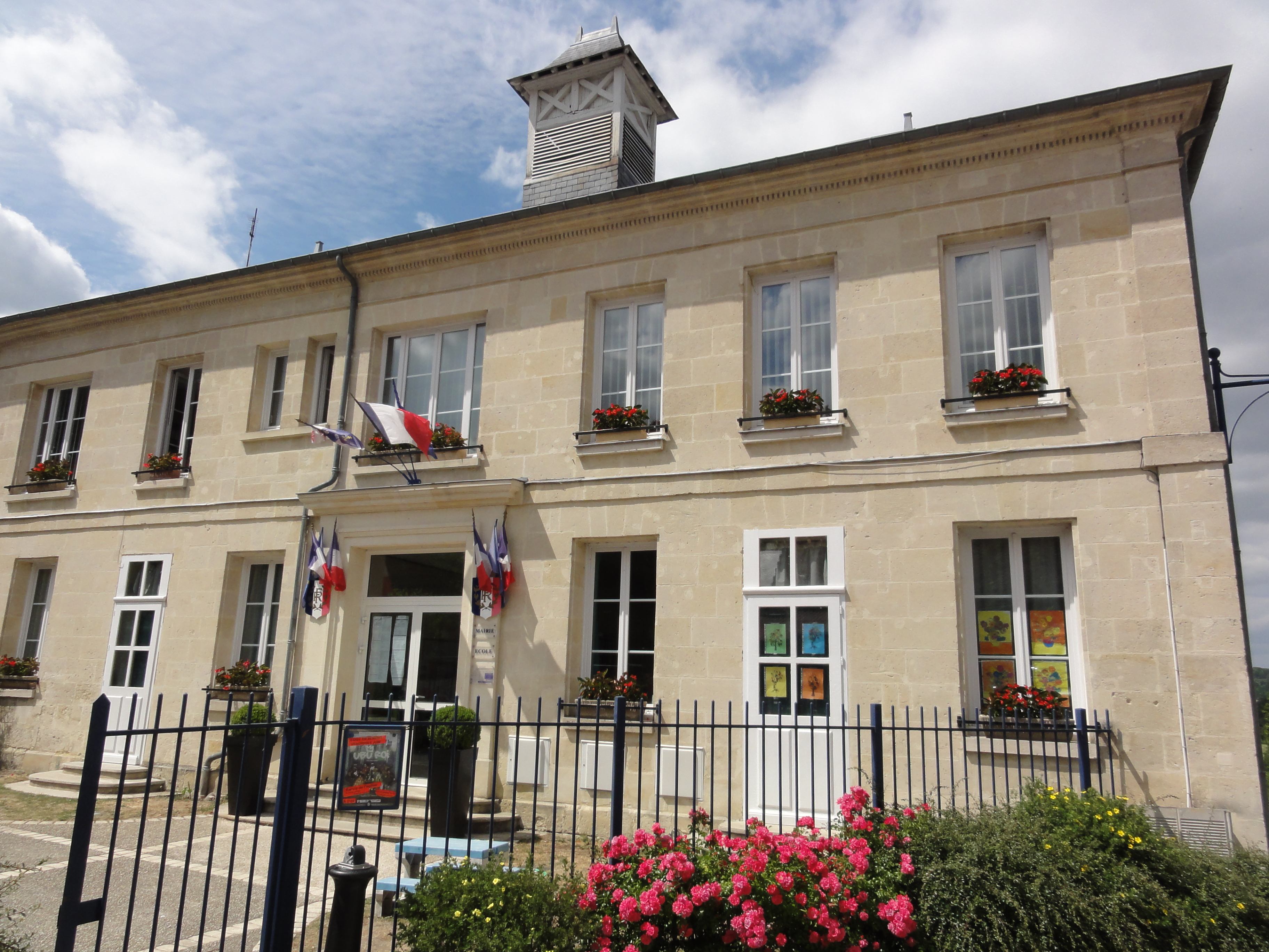 Ressons-le-Long (Aisne) mairie-école